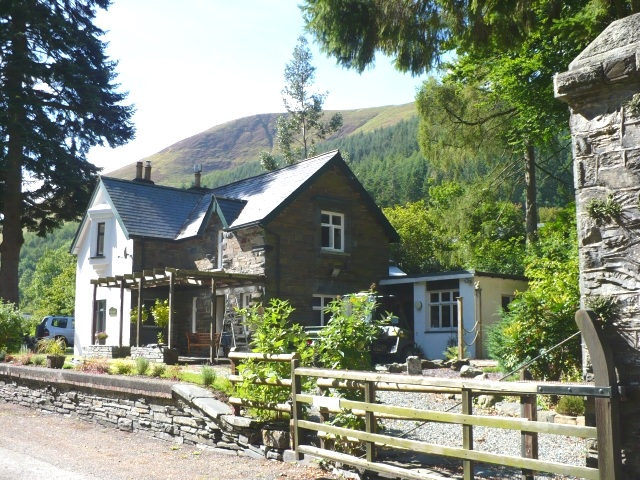 Station House, Dinas Mawddwy Former station at Dinas Mawddwy.